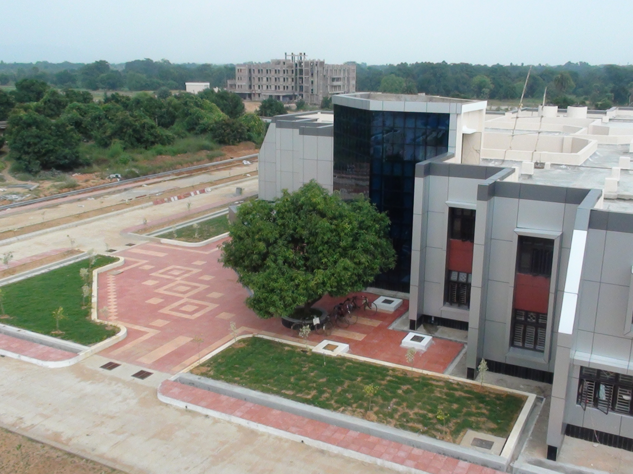 ■Indian Institute of Handloom Technology, Bargarh, Orissa